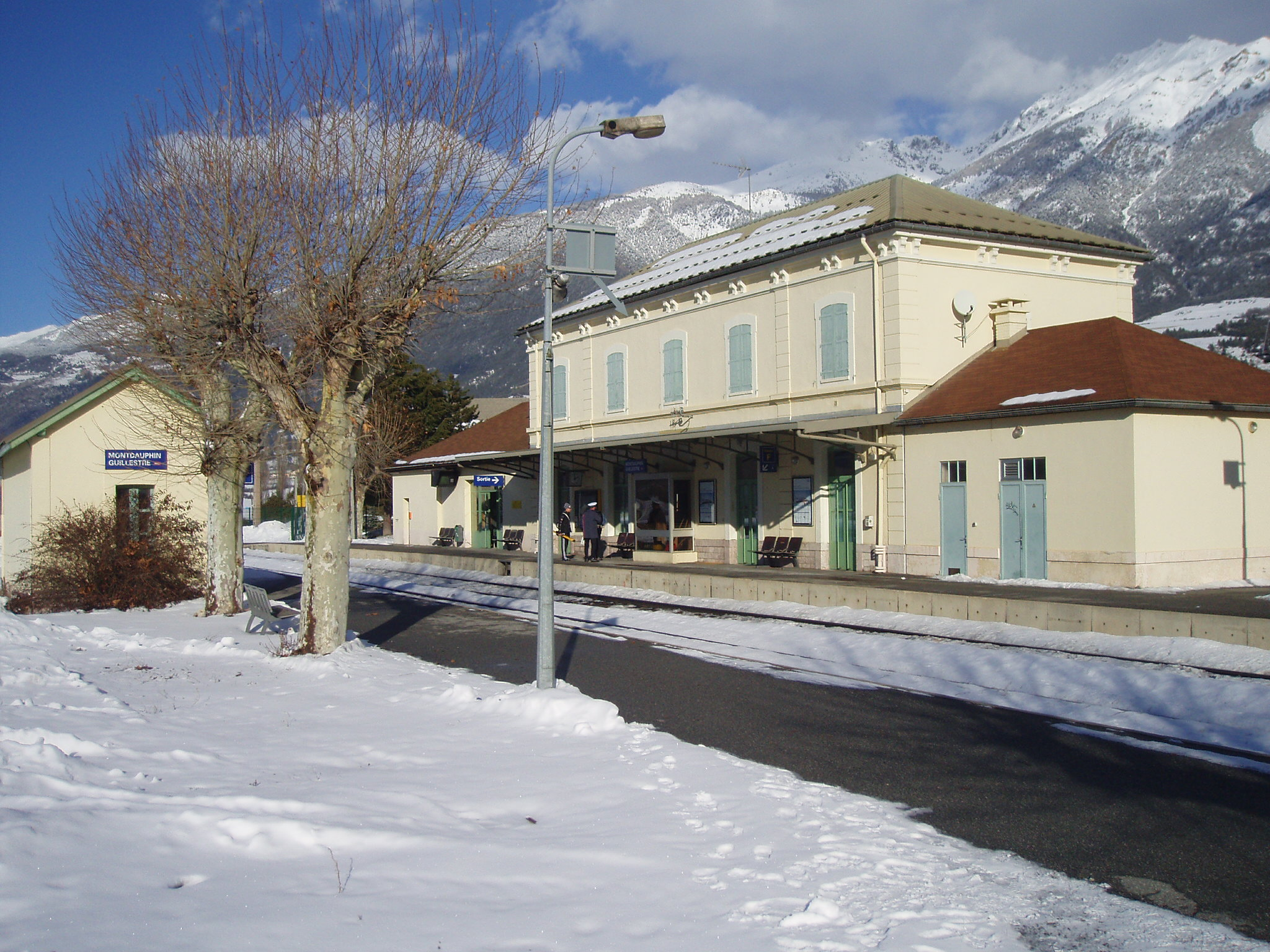 Train station at Montdauphin-Guillestre, Hautes-Alpes, France. Platforms